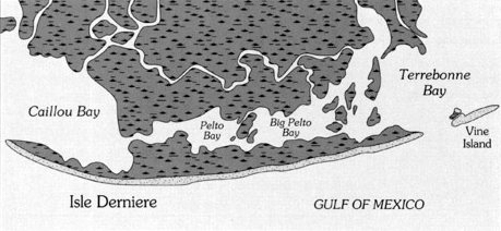 Map of Last Island, Louisiana a.k.a Isle Dernier as it appeared in 1853